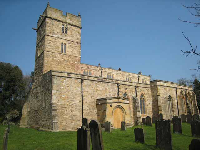 St Brandon's parish church, Brancepeth, County Durham, seen from the southwest. The church was seriously damaged by fire in 1998. The interior has been renovated rather than restored to its original state. The church was rededicated in 2005.